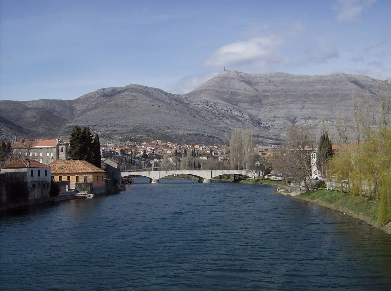 River Trebišnjica in Trebinje